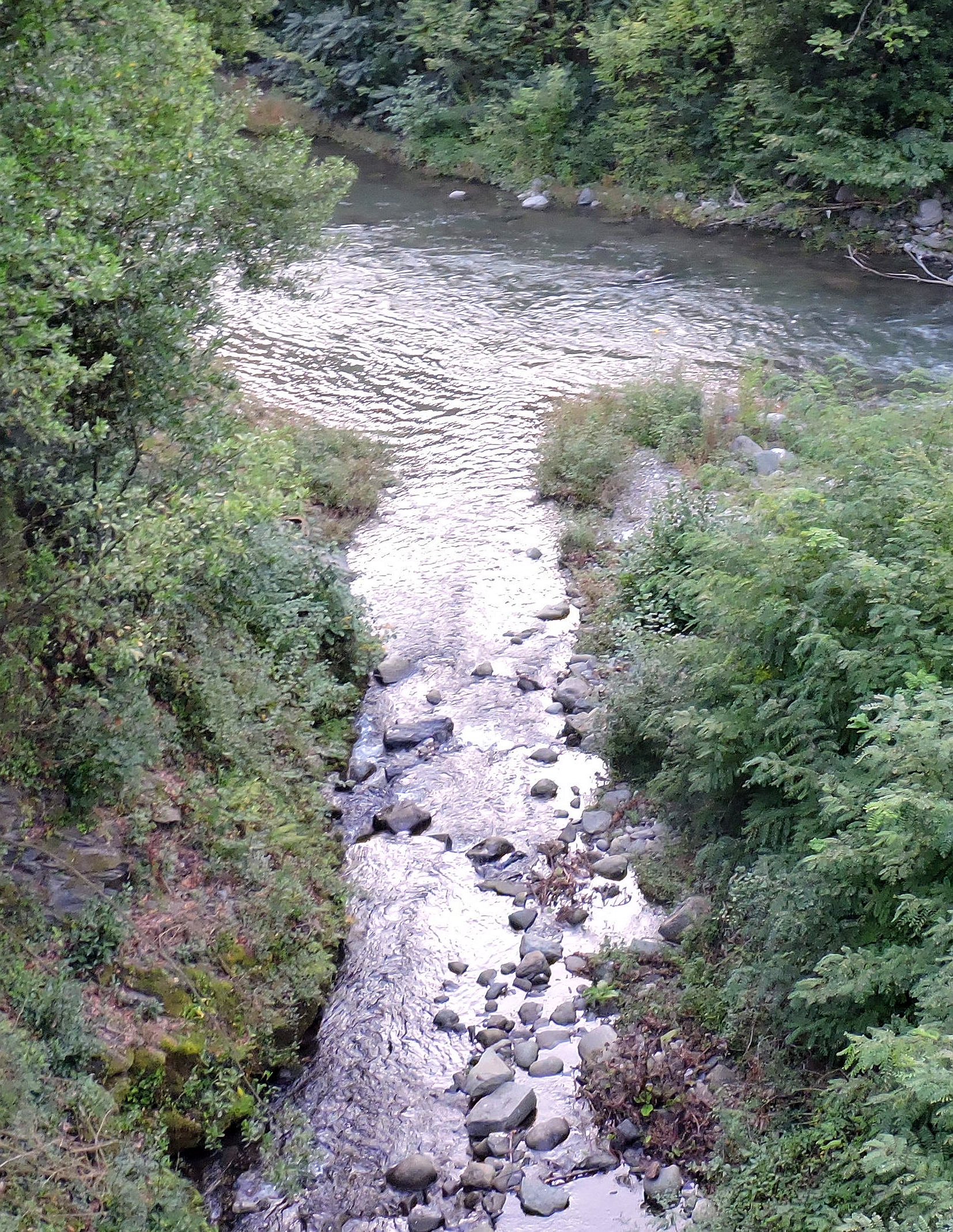 Valle Moglian/ Sturla confluence (Mezzanego, Liguria, Italy)